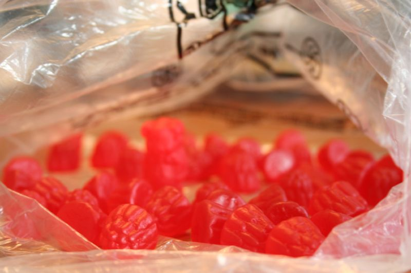 One of these things is not like the others.